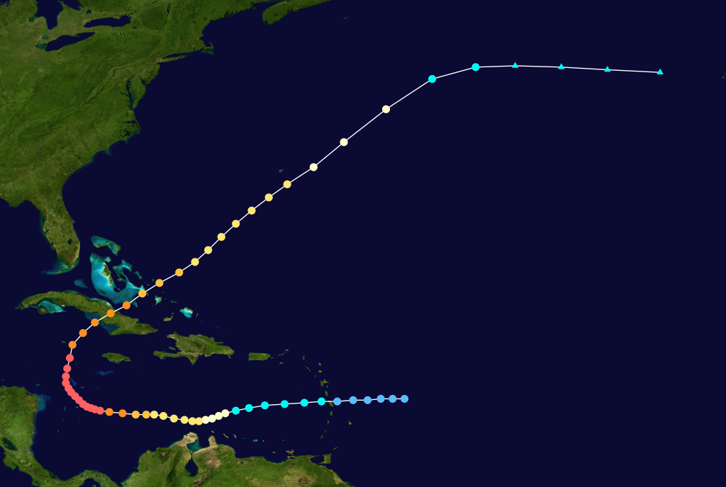 1932 Atlantic hurricane 10 track. Uses the color scheme from the Saffir-Simpson Hurricane Scale.